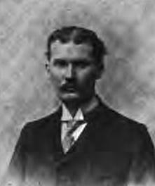 Portrait of New York state senator John Ford